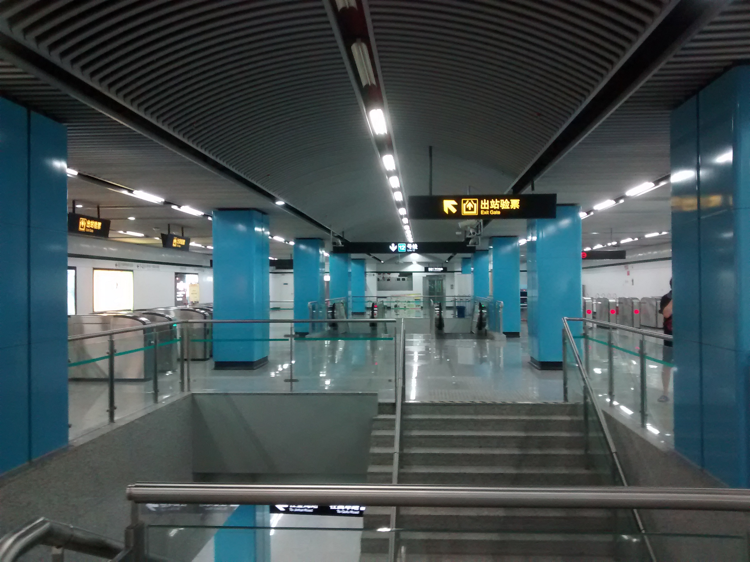 Ningguo Road Station, Shanghai